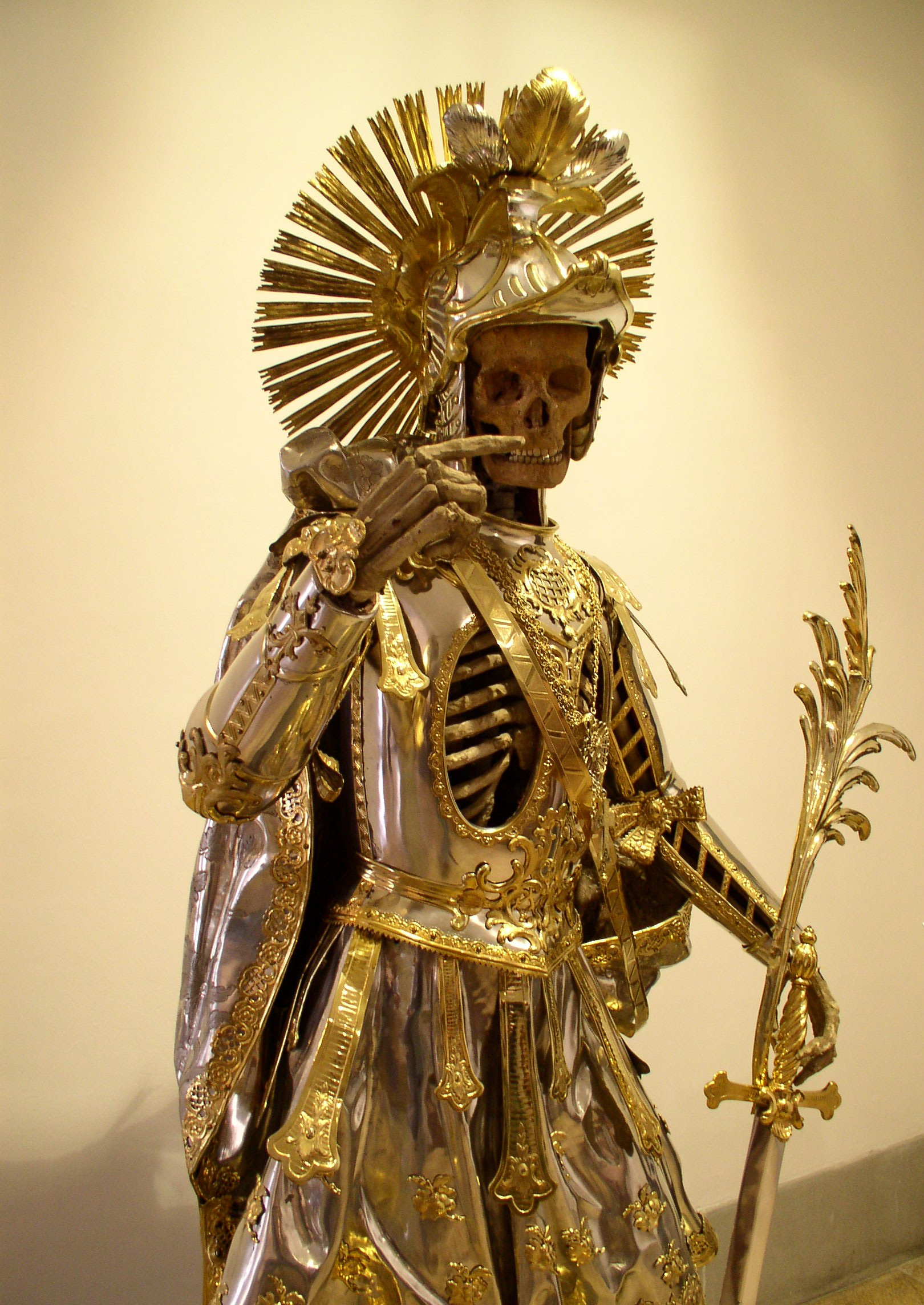 A relic from the Holy Catacombs of Pancratius. Image taken at an exhibition at the Historical Museum St. Gallen in Wil, Switzerland: Prince Abbey of St. Gall - Decline and Heritage Exhibition to commemorate the destruction of Prince Abbey of St. Gall 200 years ago.